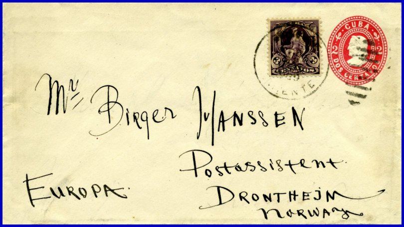 2 centavos Columbus stamped envelope uprated with 3 centavos adhesive stamp. Sent ca. 1904 from Cuba to Norway.